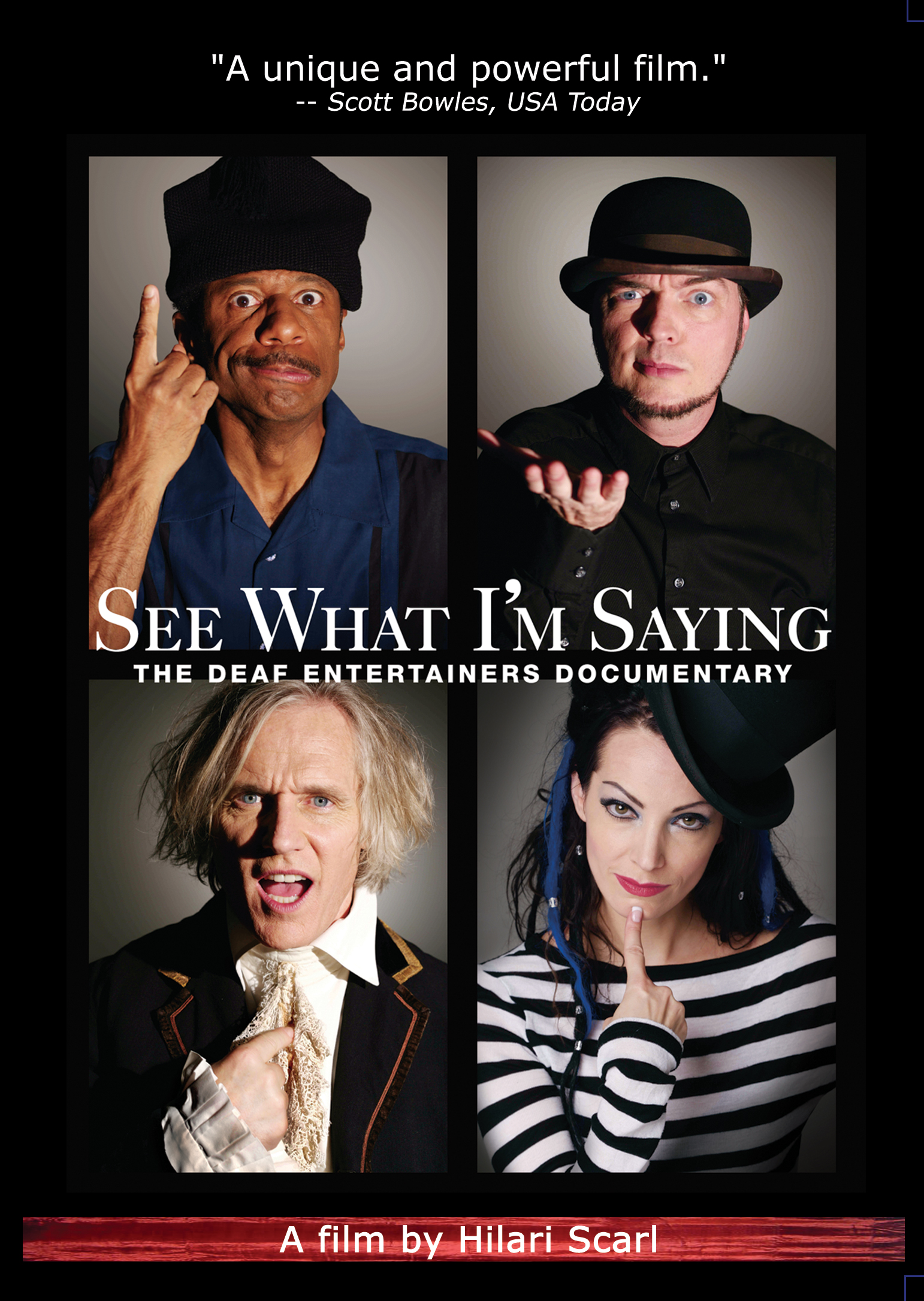 From the See What I'm Saying: The Deaf Entertainers Documentary . Official Press Kit, per producer Hilari Scarl Discpad (talk) 03:26, 9 June 2011 (UTC)